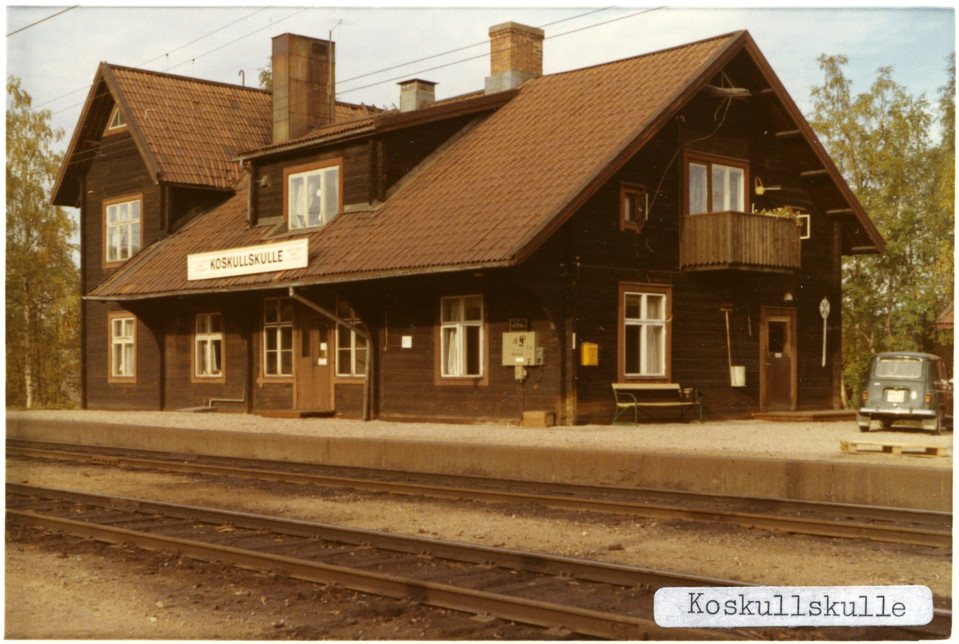 The train station in Koskullskulle, built in 1898